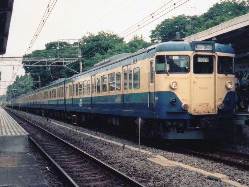 East Japan Railway Company, EMU Type 113 "Yokosuka Line" (Taken at Kita-Kamakura Station)